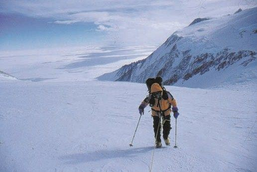 Gavin Bate on the Vinson Massif in Antarctica